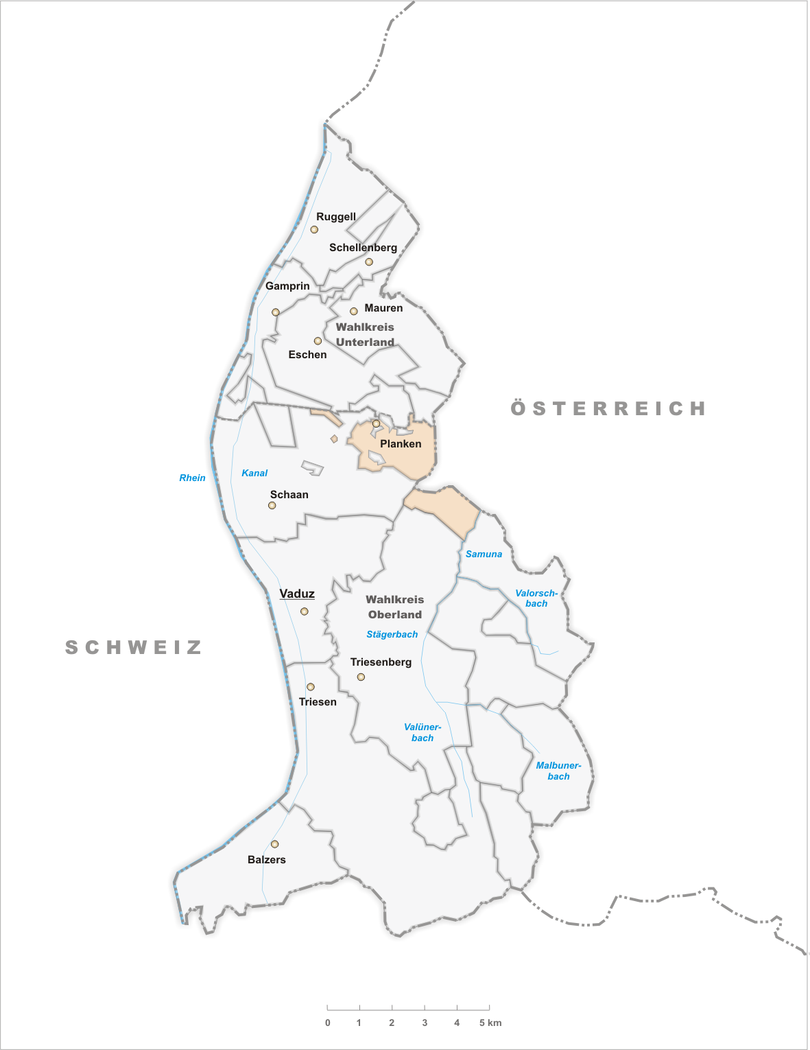 Municipality Planken